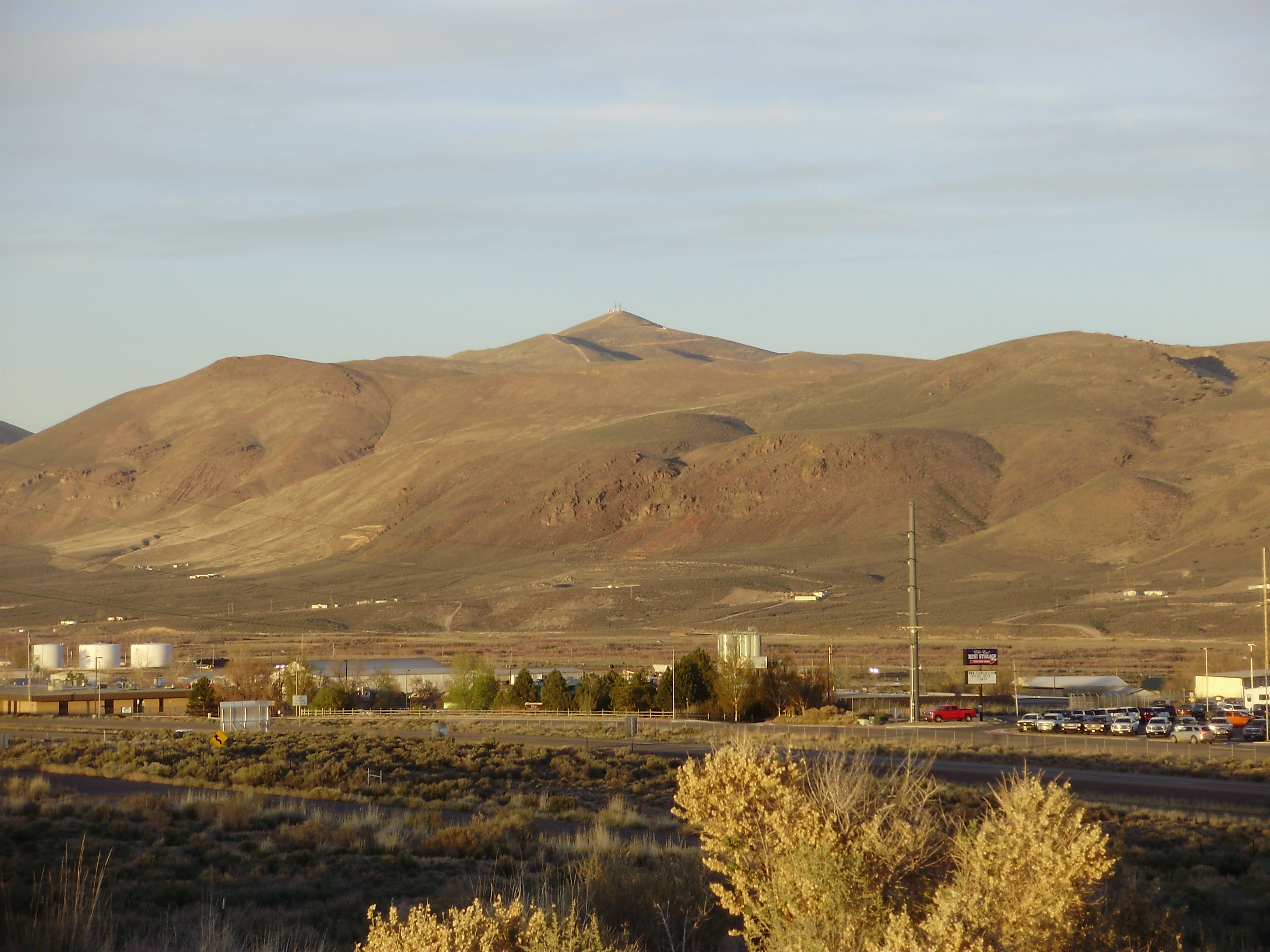 View of Elko Mountain from Paradise Drive in Elko, Nevada